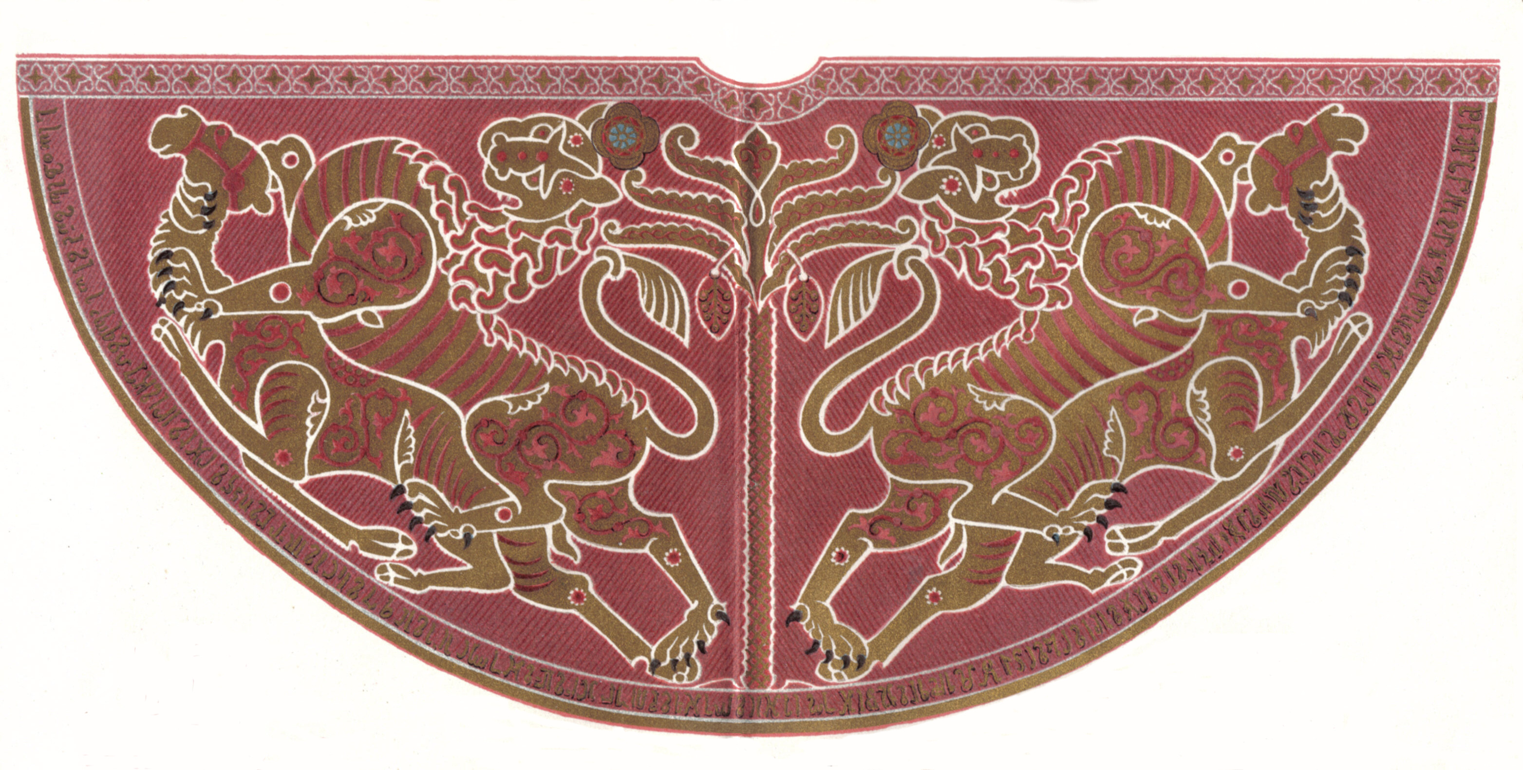 Pluviale of the crown treasure of the Holy Roman Empire